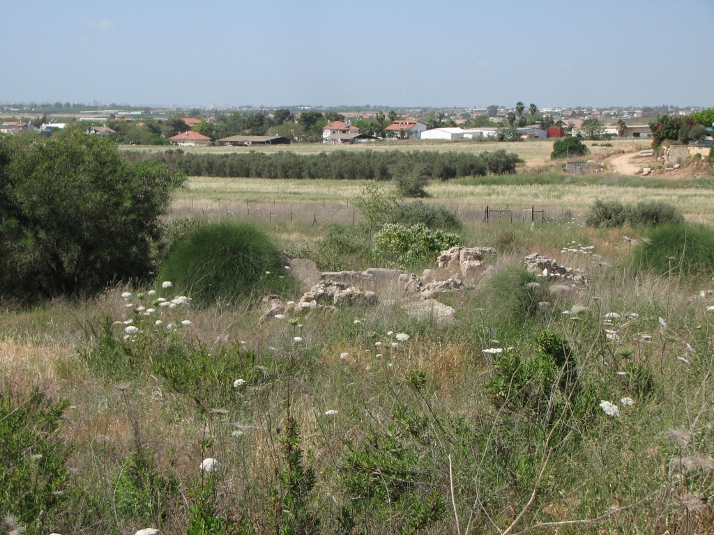 Bart Tarif remains